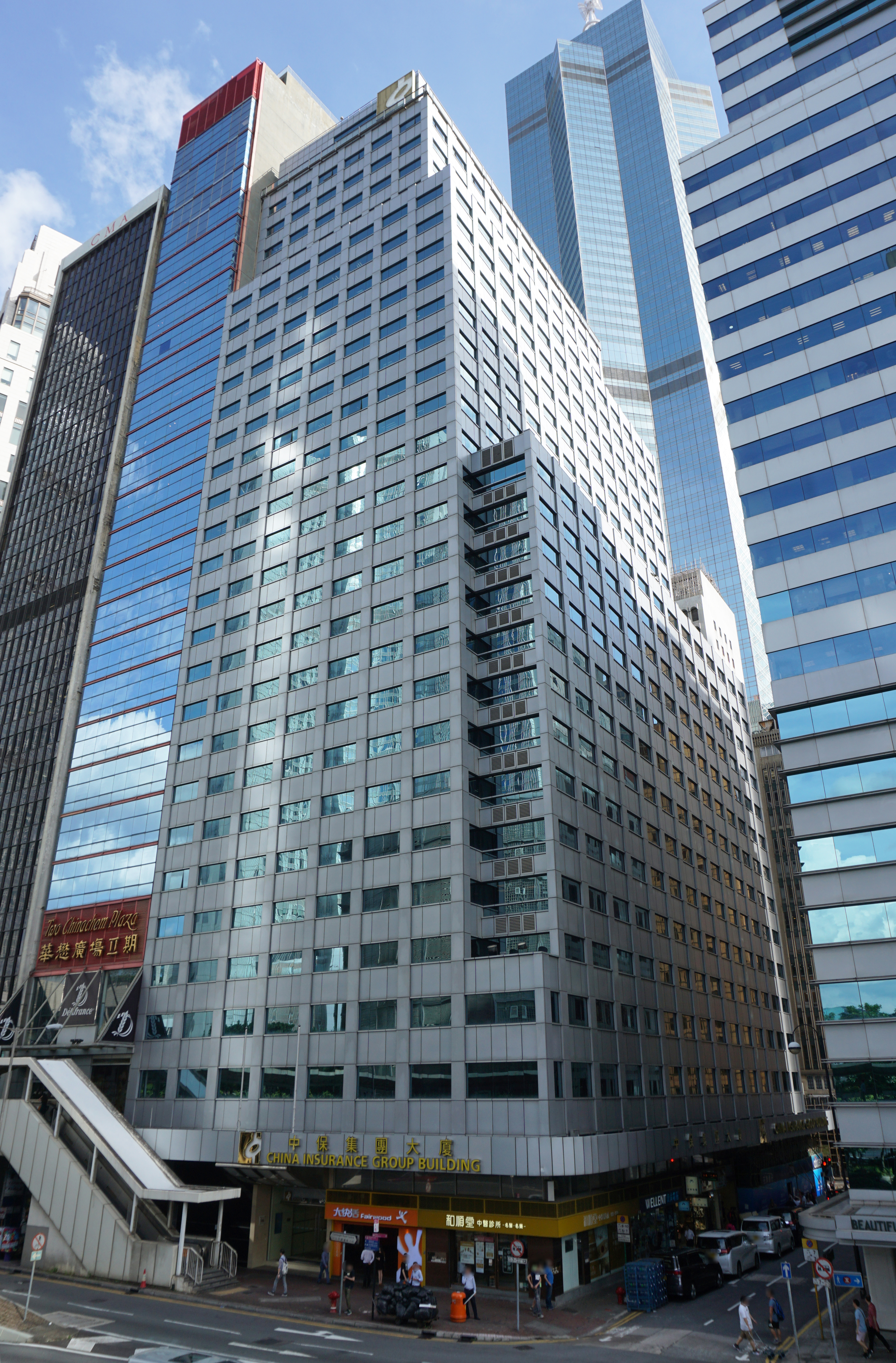 China Insurance Group Building in Sheung Wan, Hong Kong.